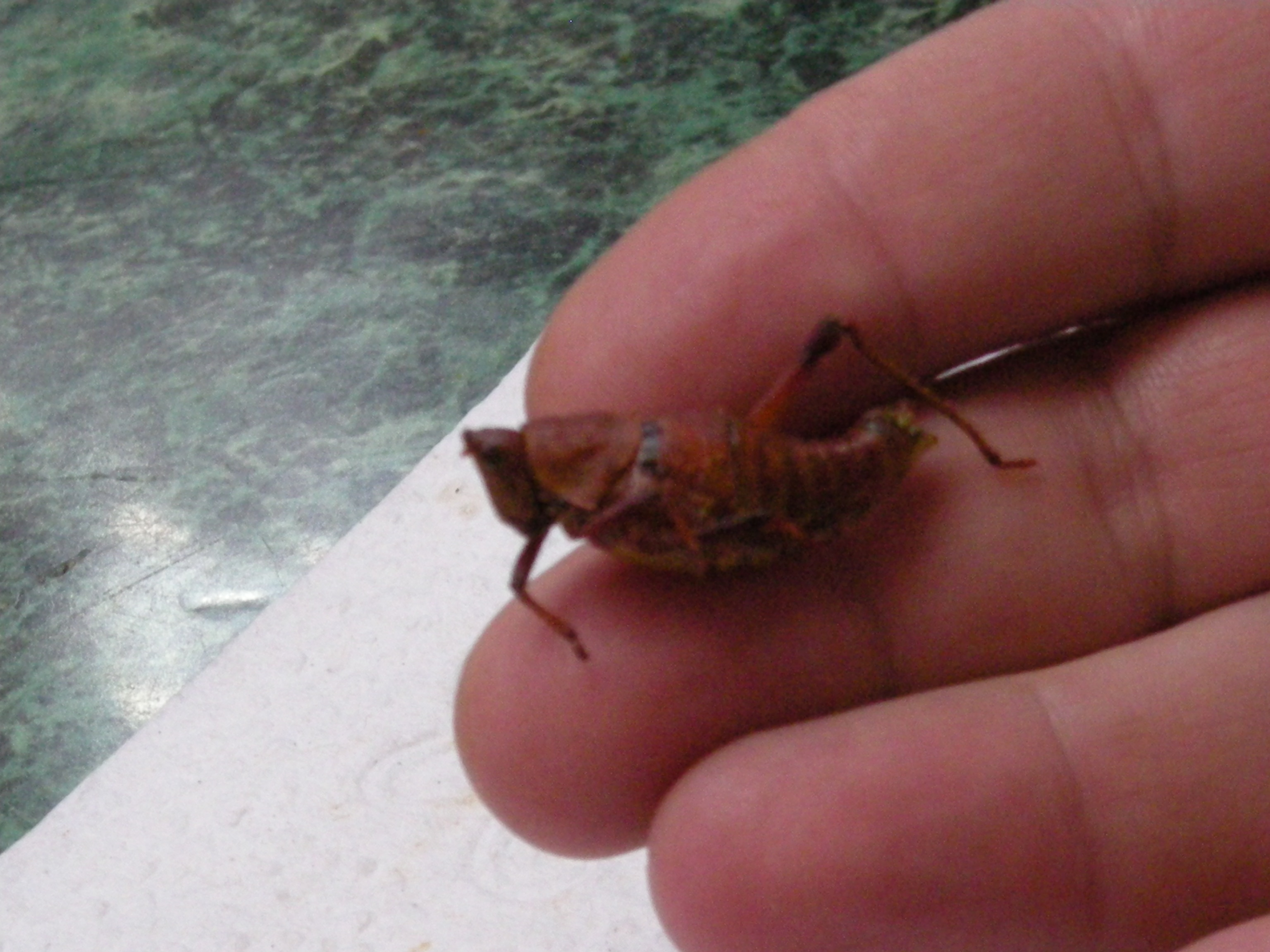 a fried chapulin (grasshopper) on a hand for size comparison